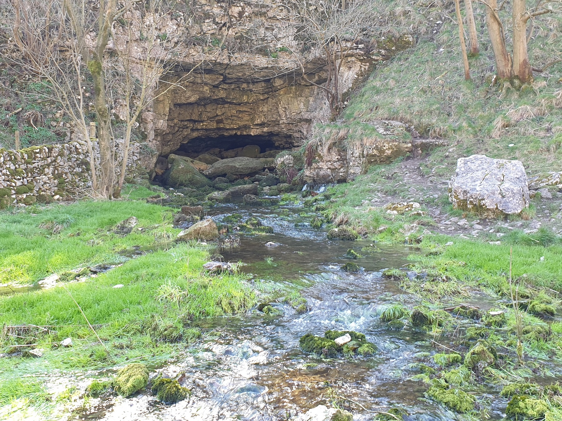 Lathkill Head Cave